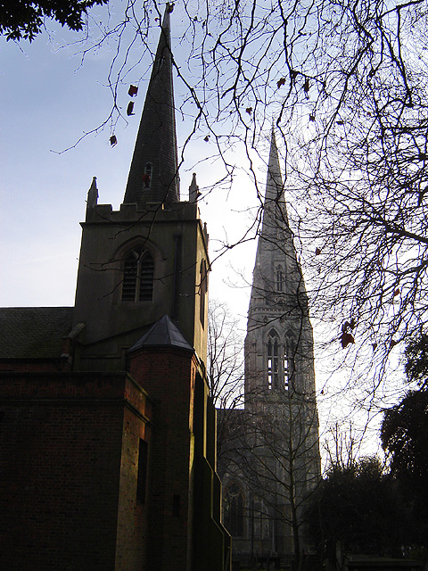 The towers and spires of St Mary's old (left) and new (right) parish churches, Church Street, Stoke Newington, London N16, seen from the north